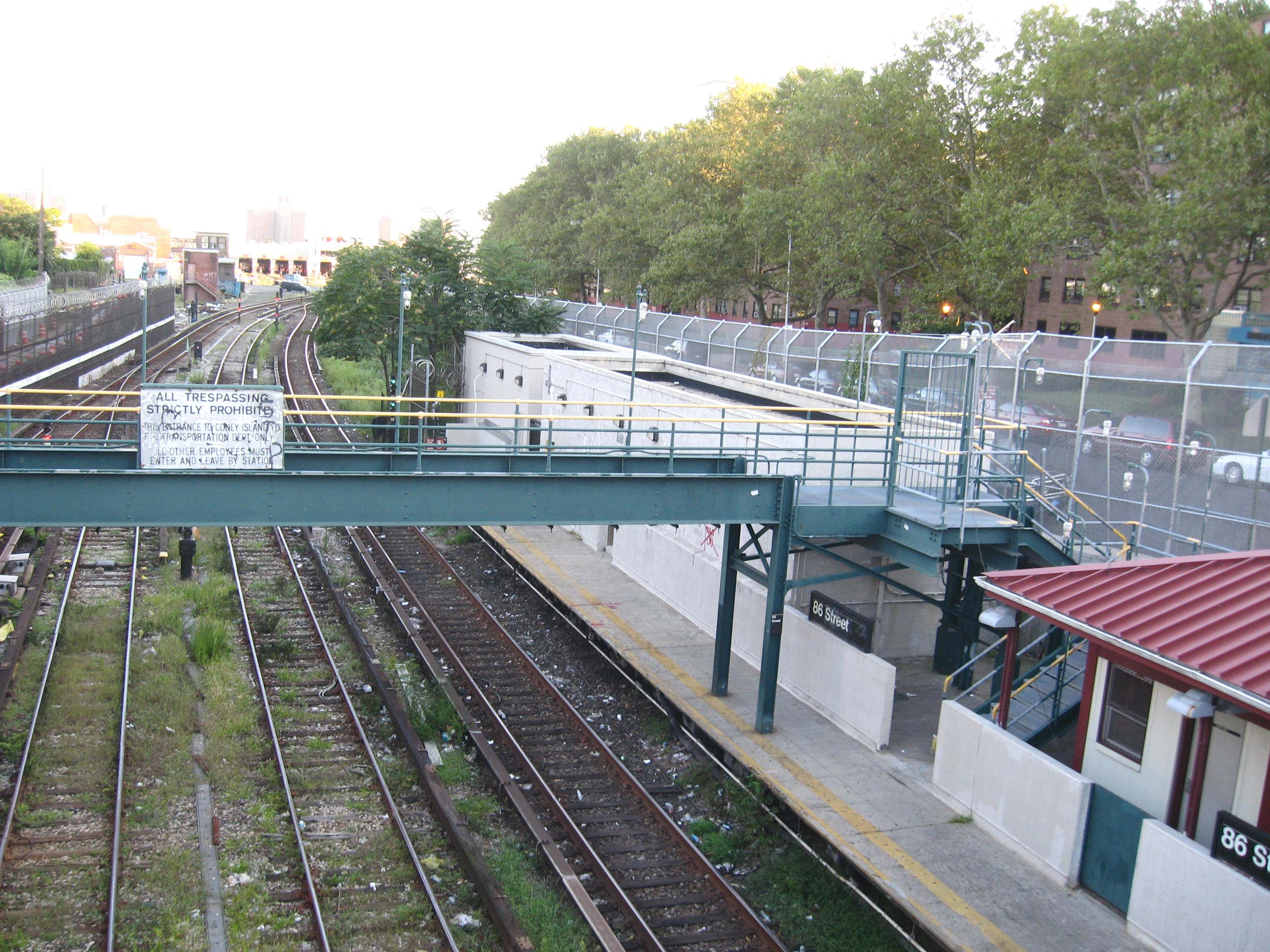 Looking south and down from street overpass, onto Gravesend–86th Street (BMT Sea Beach Line) on a sunny late afternoon